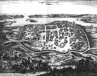 Pulicat,_Aerial_view_of_Pellacata-1682, Pellacata, Dutch town and fortress on the Coromandel Coast, India